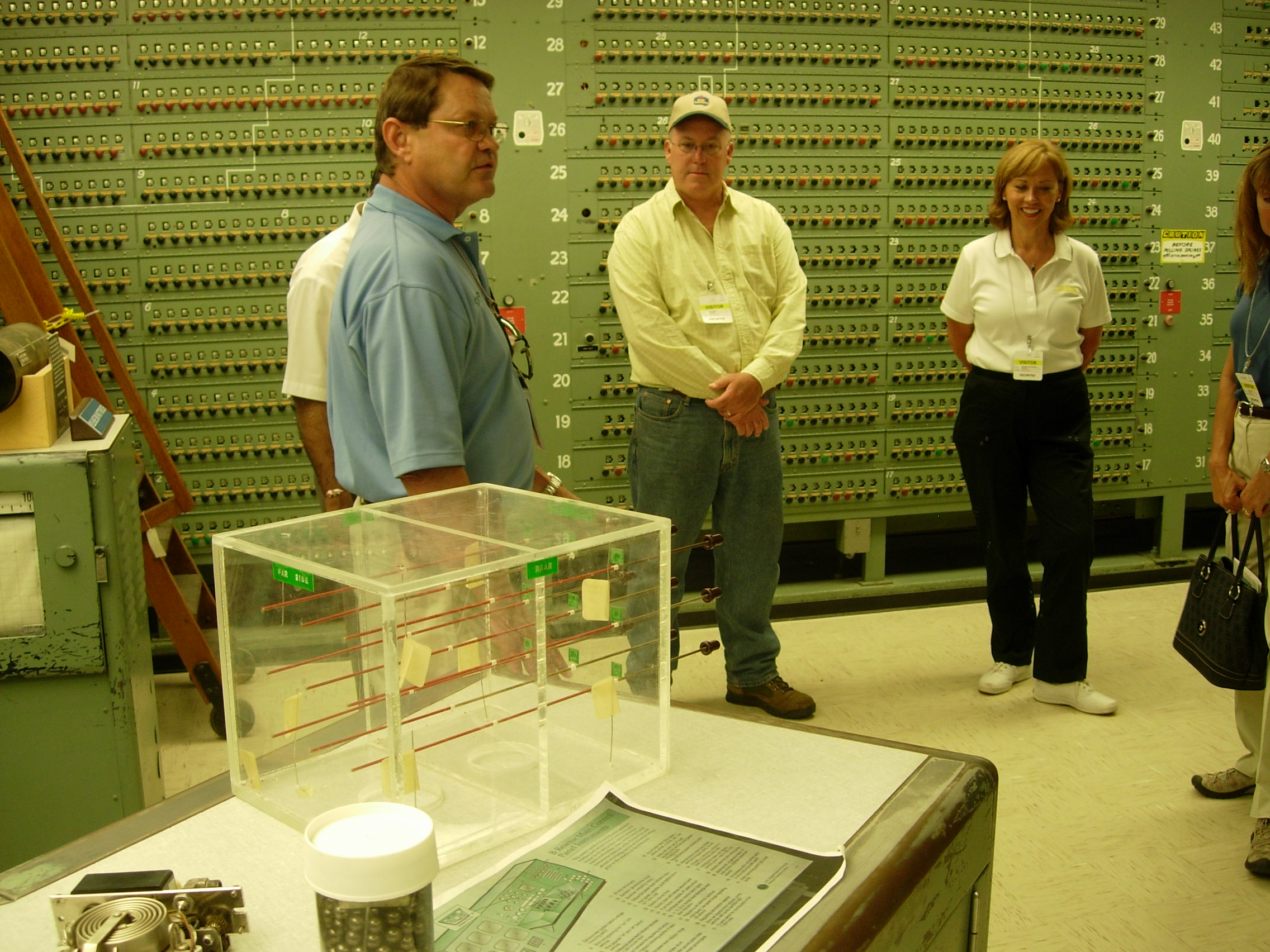 Inside the Control Room at the B Reactor National Historic Landmark, Russ Fabre explains to visitors how the world’s first, full-scale nuclear reactor operated to produce plutonium for the Trinity Test, and for the Fat Man Bomb which was detonated over Nagasaki, Japan in August of 1945.